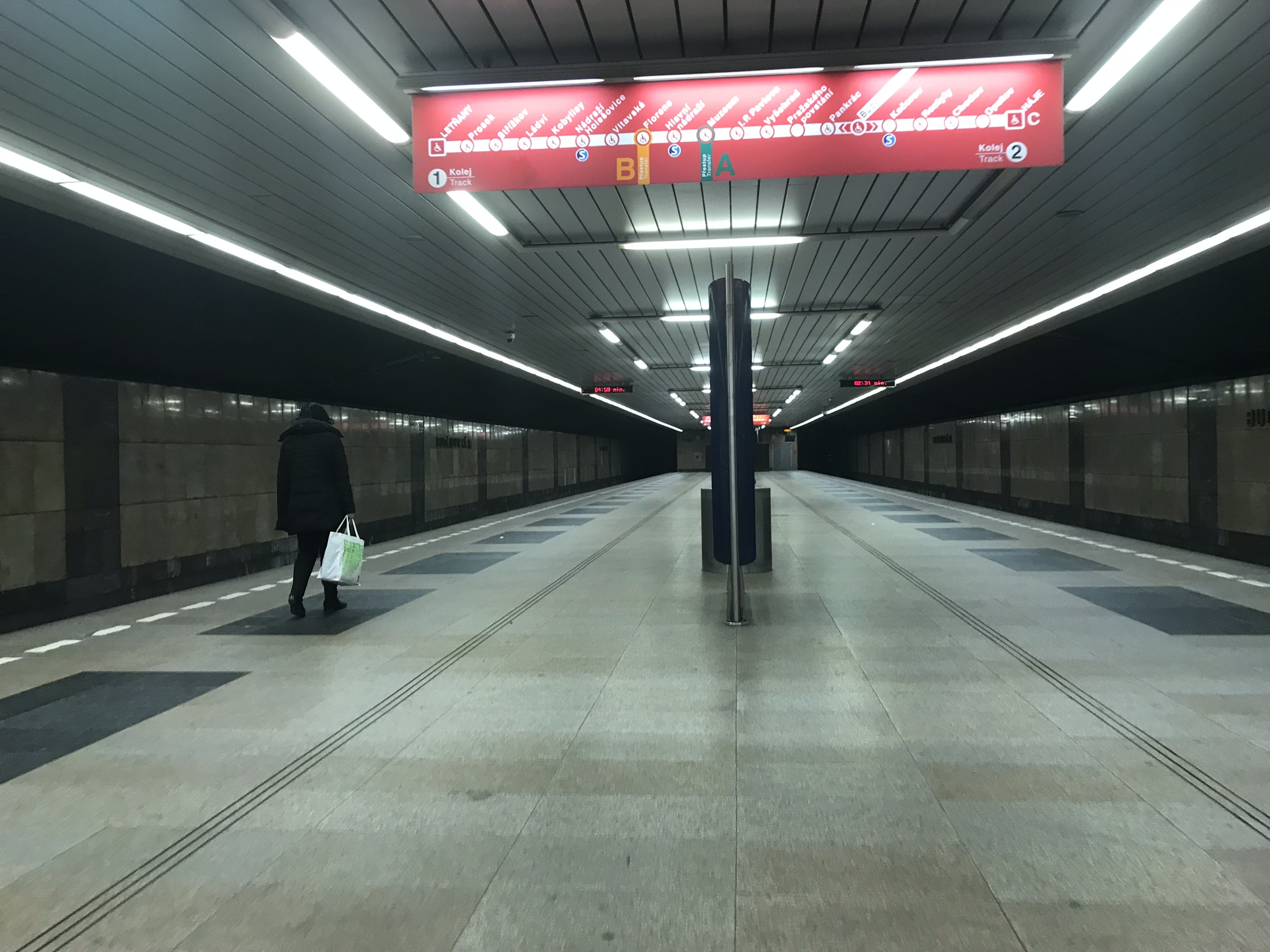 Station Budějovická of Prague Metro (line C)